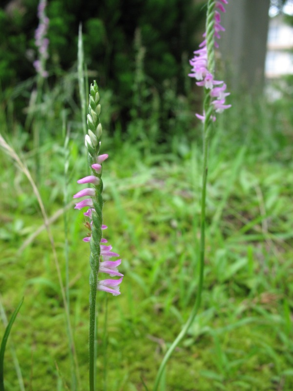 Photograph of Spiranthes sinensis, taken in Tama city, Tokyo, Japan.